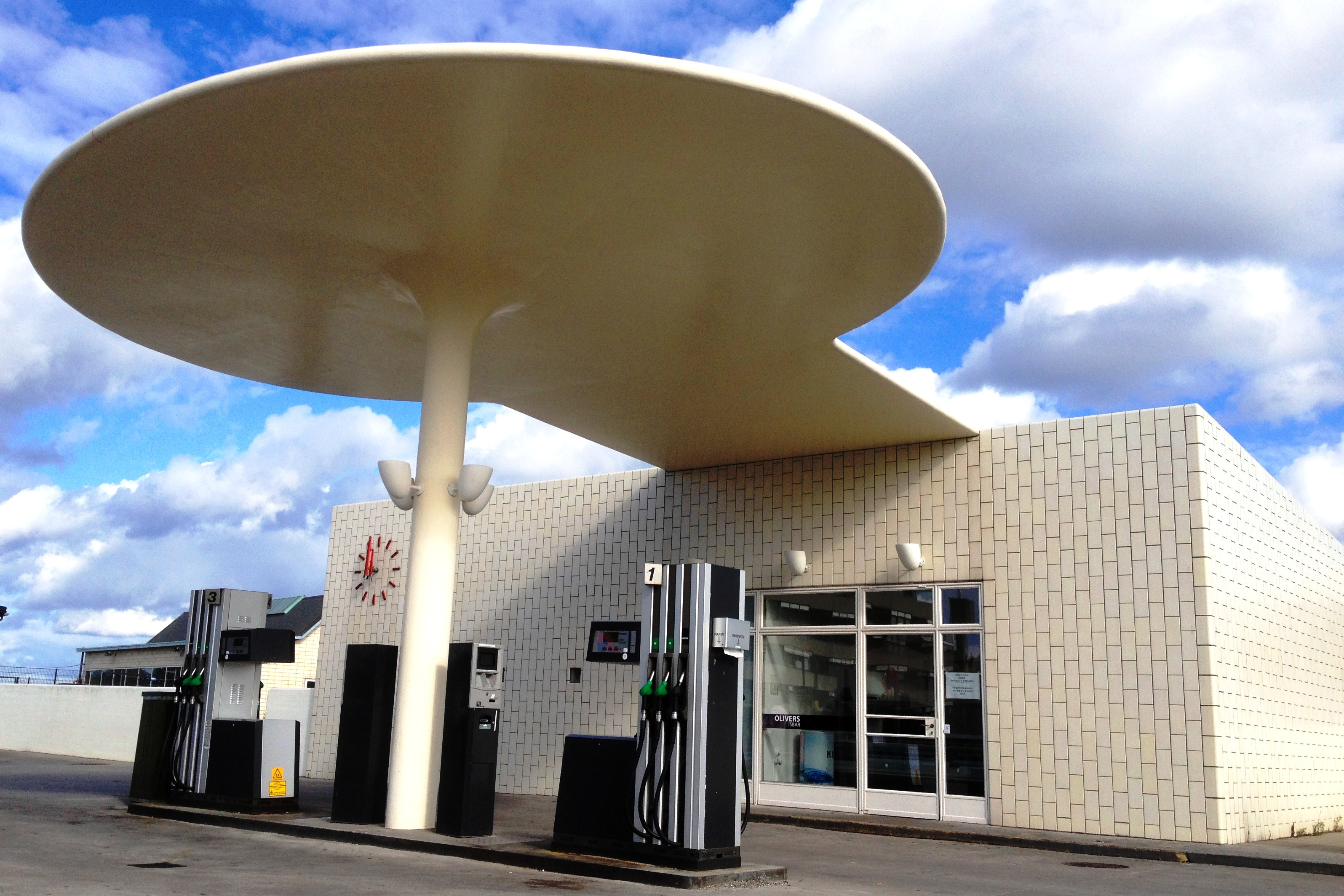 Gas station (1937) by Danish architect Arne Jacobsen, Kystvejen 24, Skovshoved, Denmark